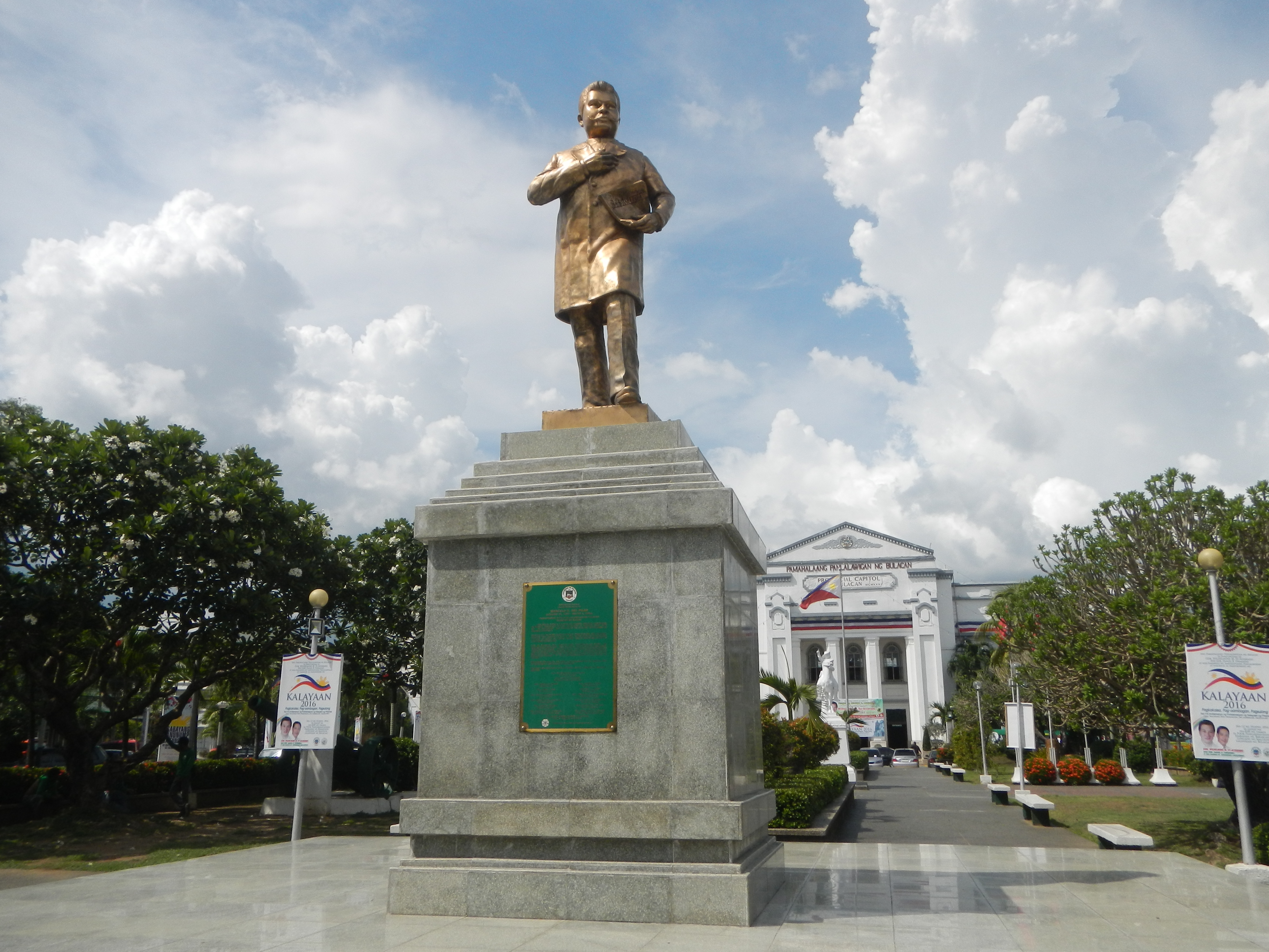 Bulacan Military Area Memorial Park, Encounter, Bulacan Military Area Troops vs Enemy, Marker, July 4, 1952 by Bulacan Governor Alejo S. Santos Bulacan Military Area, Main facade, Bulacan Provincial Capitol, including therein the Marcelo H. del Pilar monument and Gregorio del Pilar Monument (in the Provincial Capitol Compound Complex in Barangay Guinhawa Malolos City, Bulacan, to and from Malolos Flyover (Malolos City, Bulacan) and Malolos City overpass bridge at and along MacArthur Highway or Manila North Road).